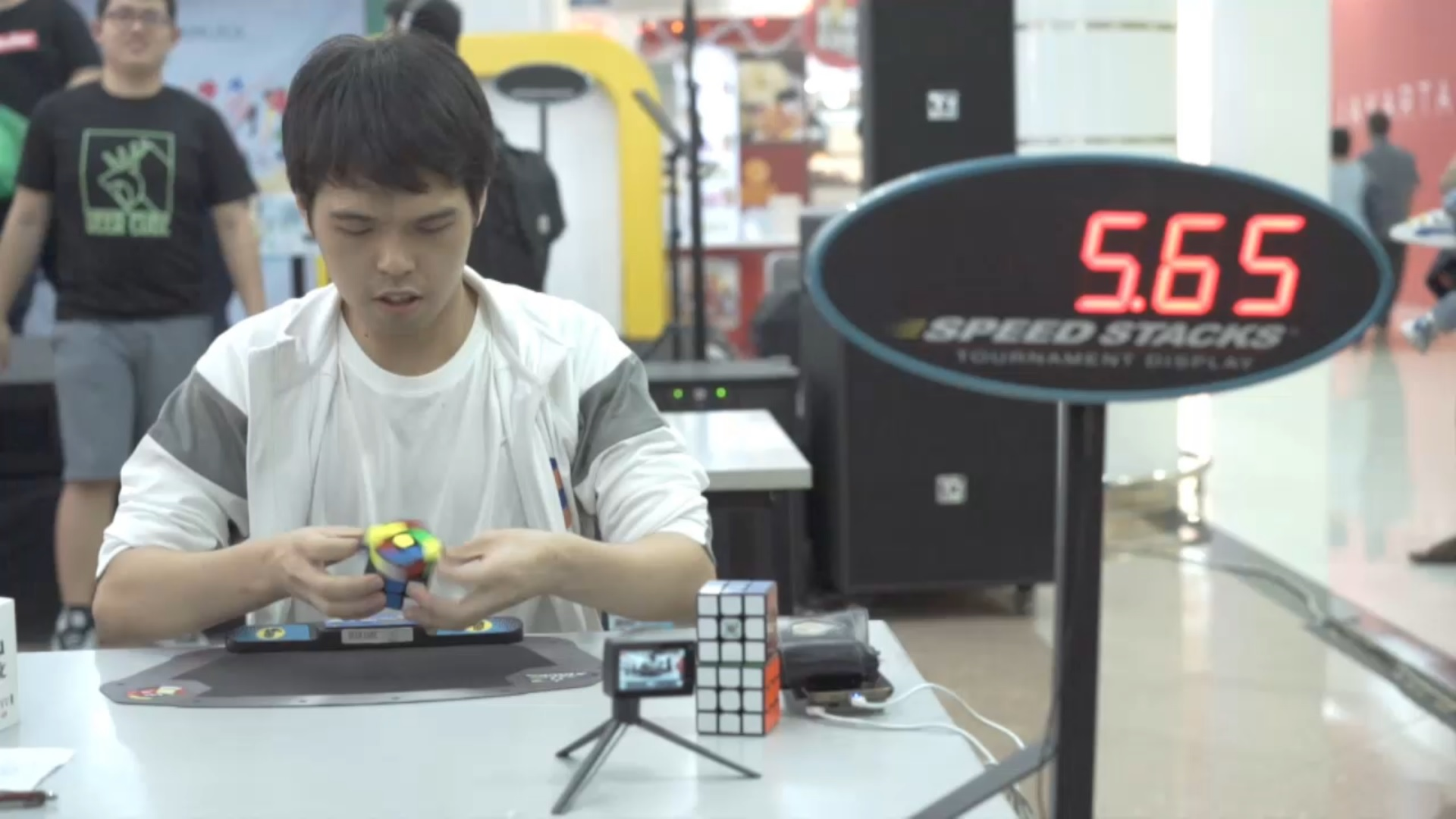 Vincent Hartanto Utomo solves the 3x3x3 Cube at 3x3x3 Final of Jakarta Mini Open 2018